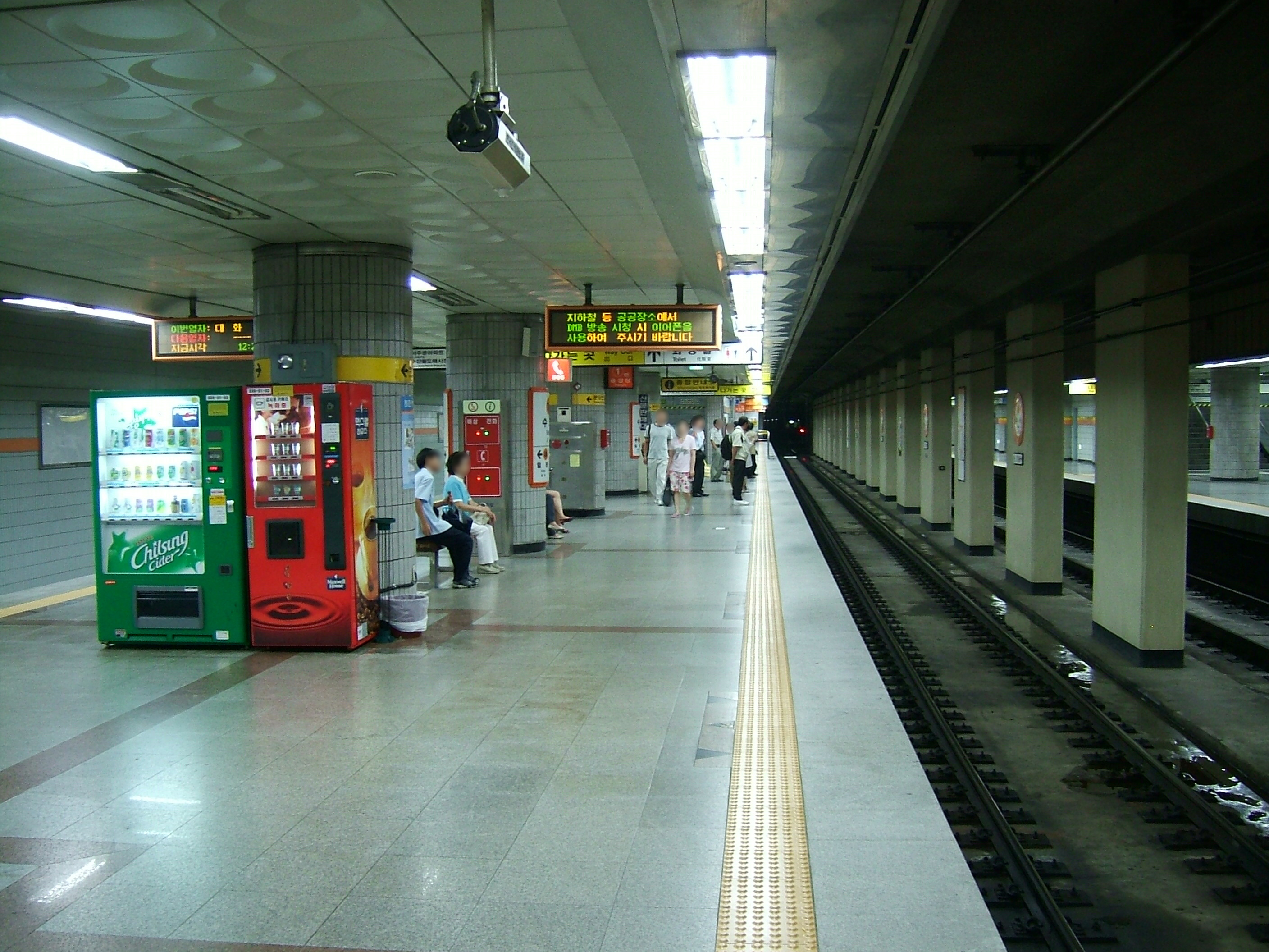 The platforms at Suseo Station, Seoul Subway Line 3